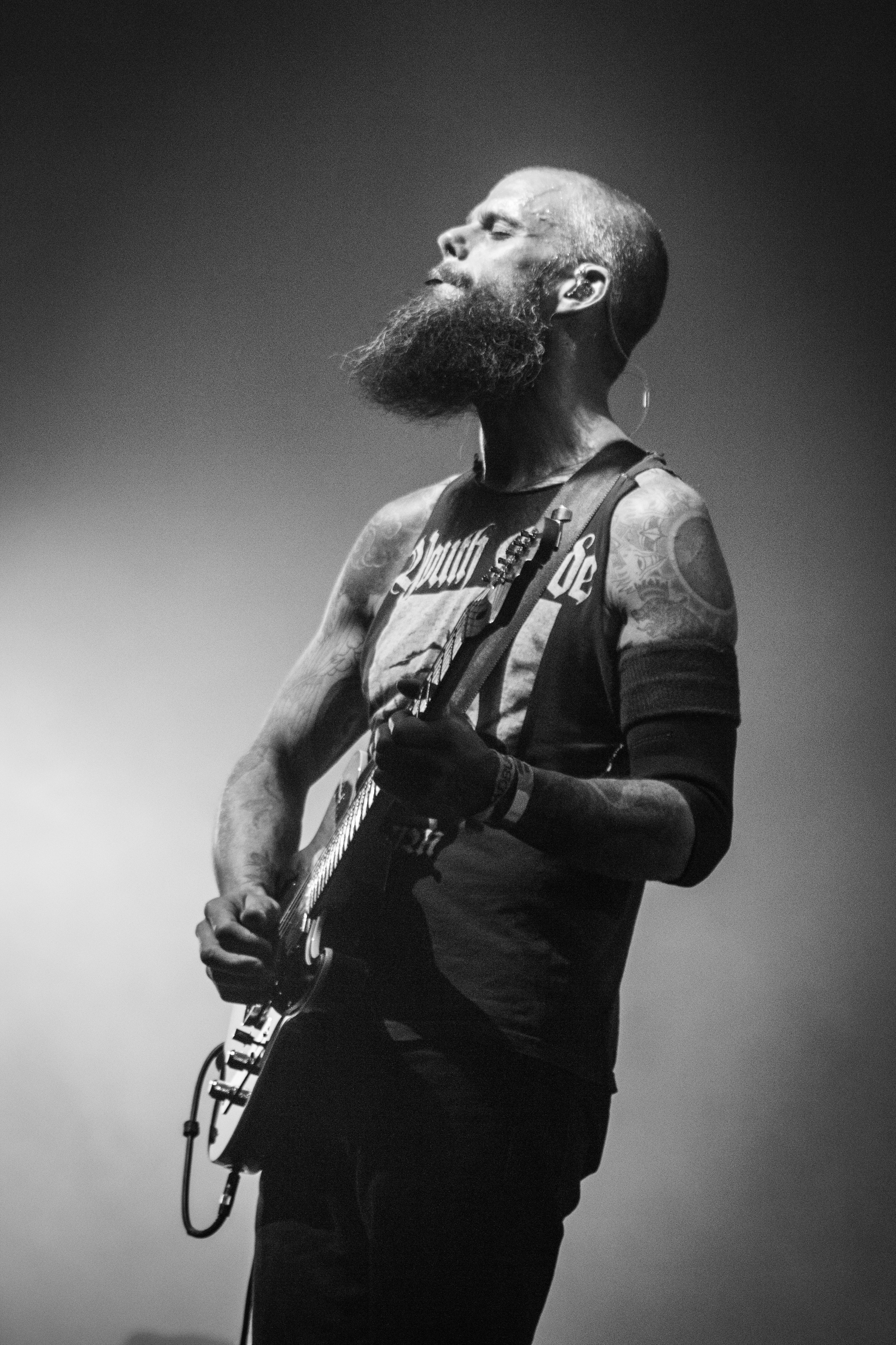 Baroness live at Roadburn Festival, Tilburg, April 2017